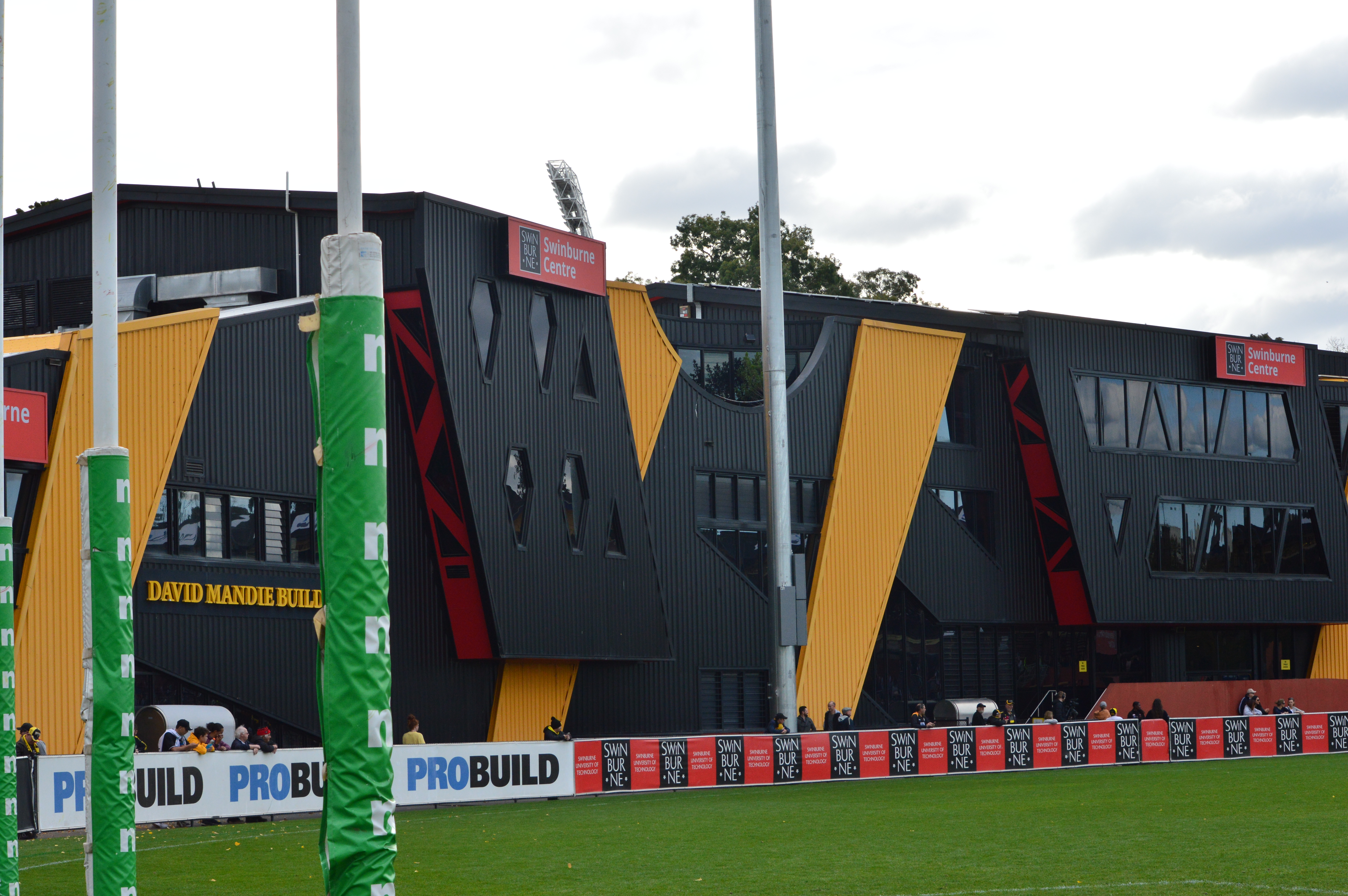 Punt Road Oval on 25 May 2019.